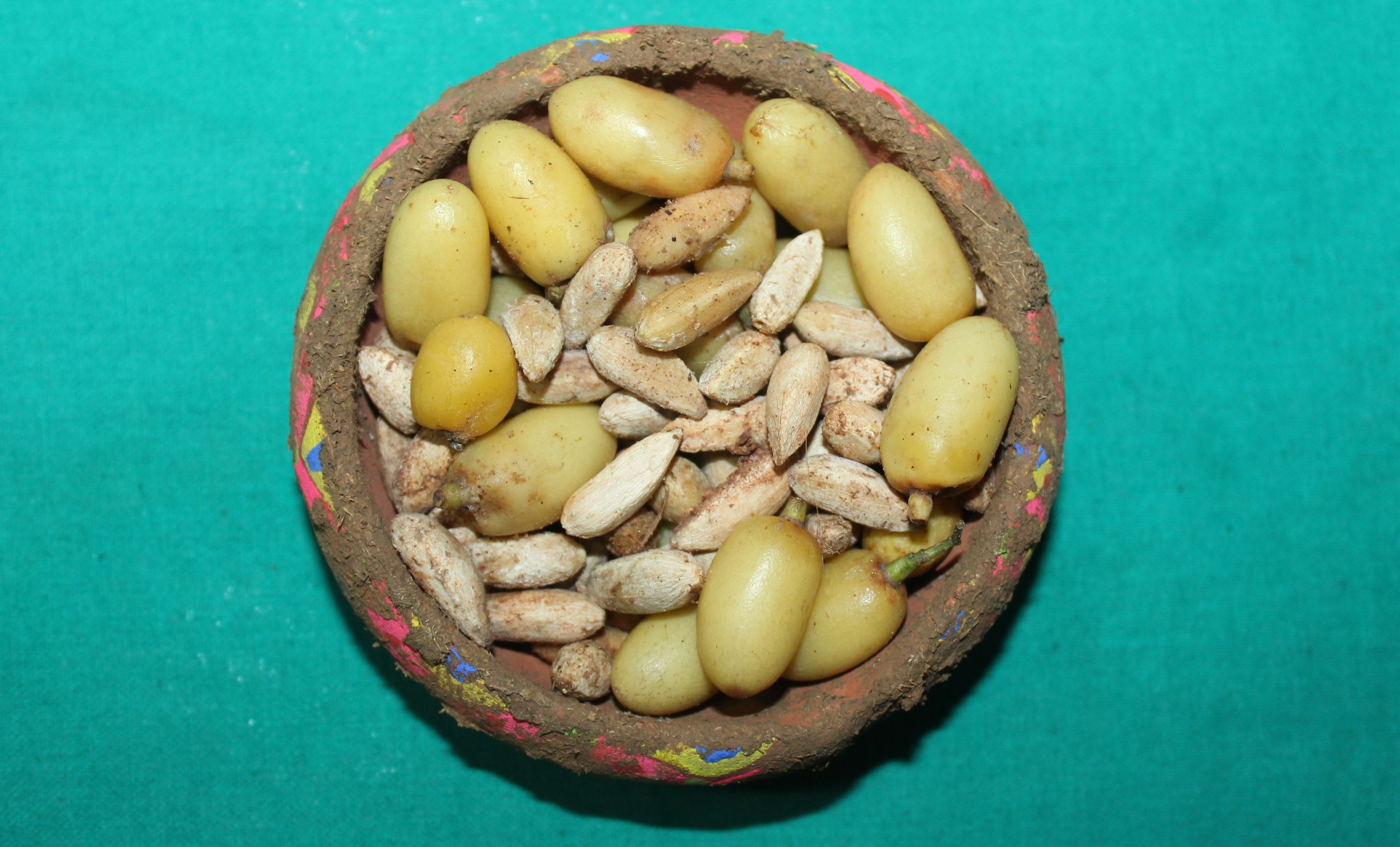 Collected fruits and seeds of (Azadirachta indica) Neem tree in Visakhapatnam